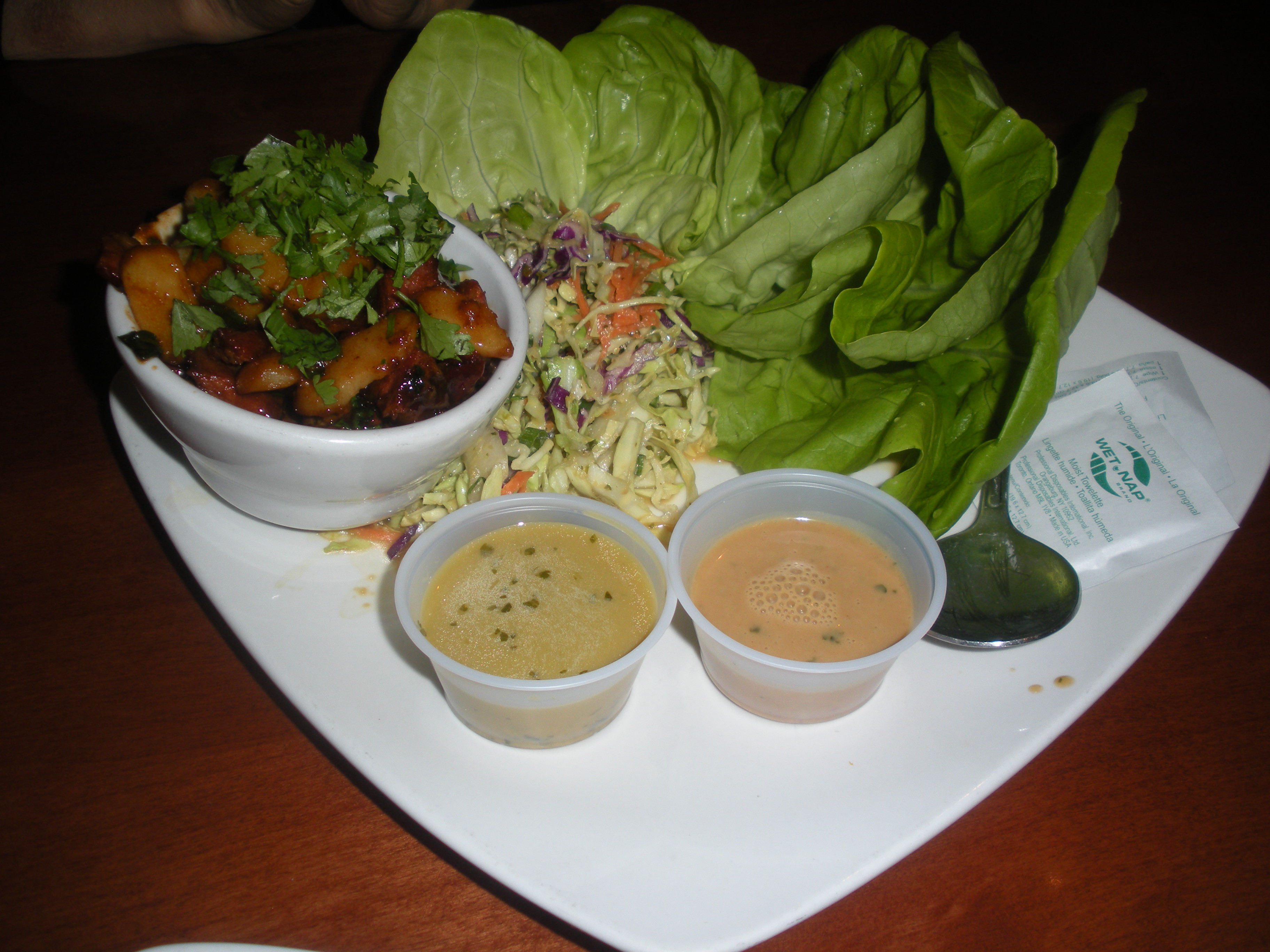 These are Shanghai-style lettuce wraps from Auburn Alehouse in Auburn, California. This picture was originally posted at my Flickr account